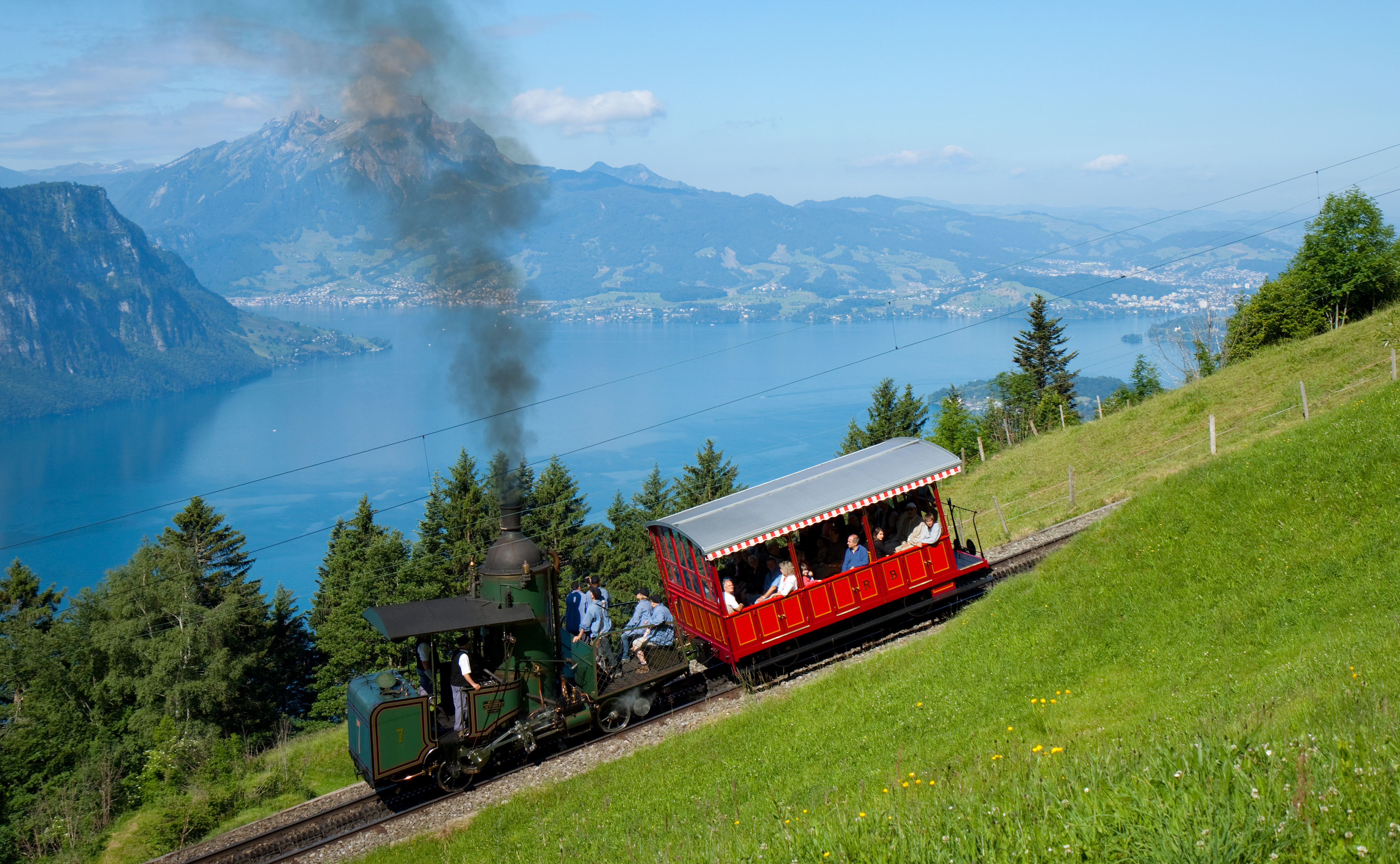 Locomotive no. 7 of the Vitznau-Rigi-Bahn, one of the last (if not the last) operational locomotives with a vertical boiler, climbing Mount Rigi, between Grubisbalm and Freibergen, Switzerland.